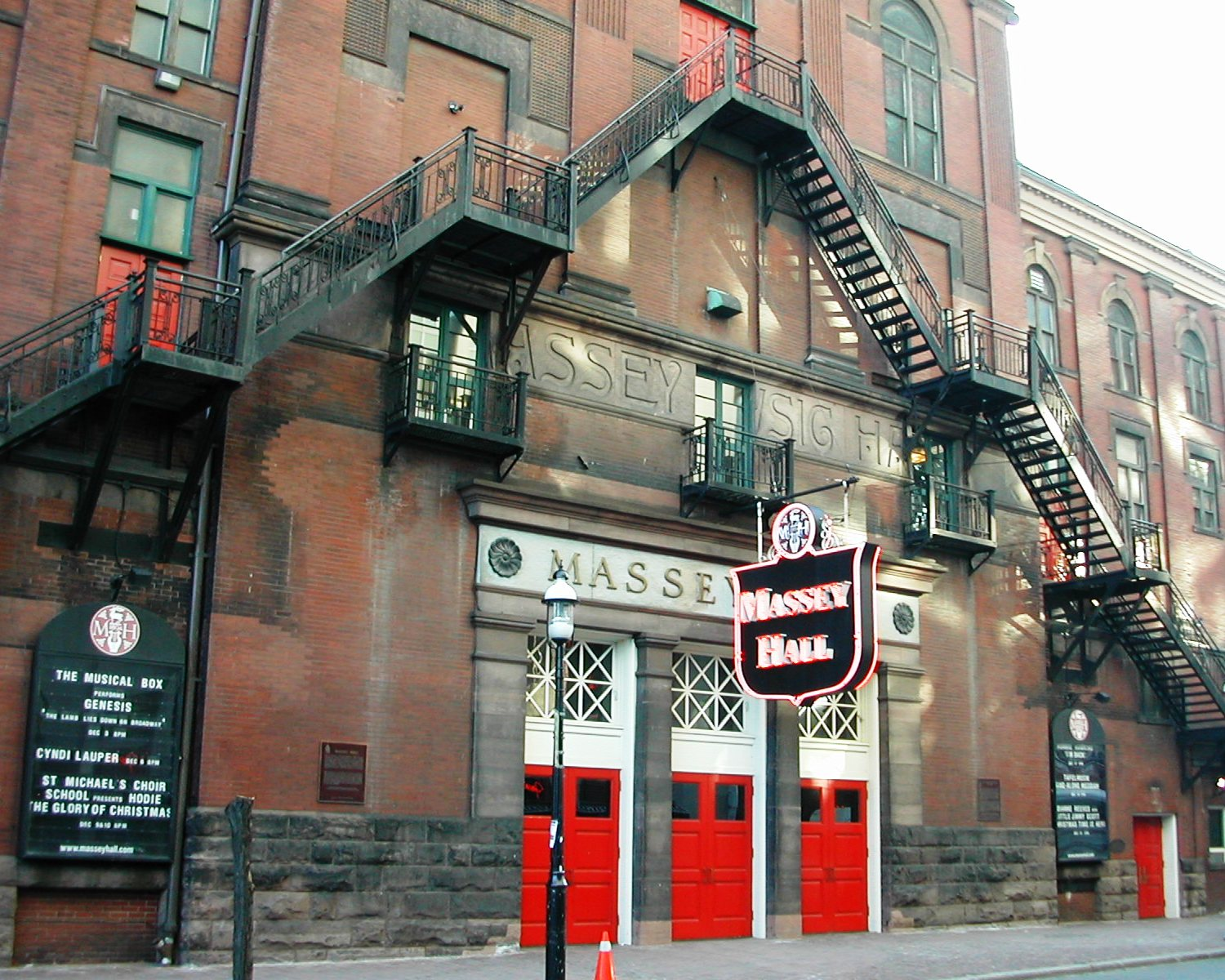 Massey Hall in Toronto, Ontario, Canada